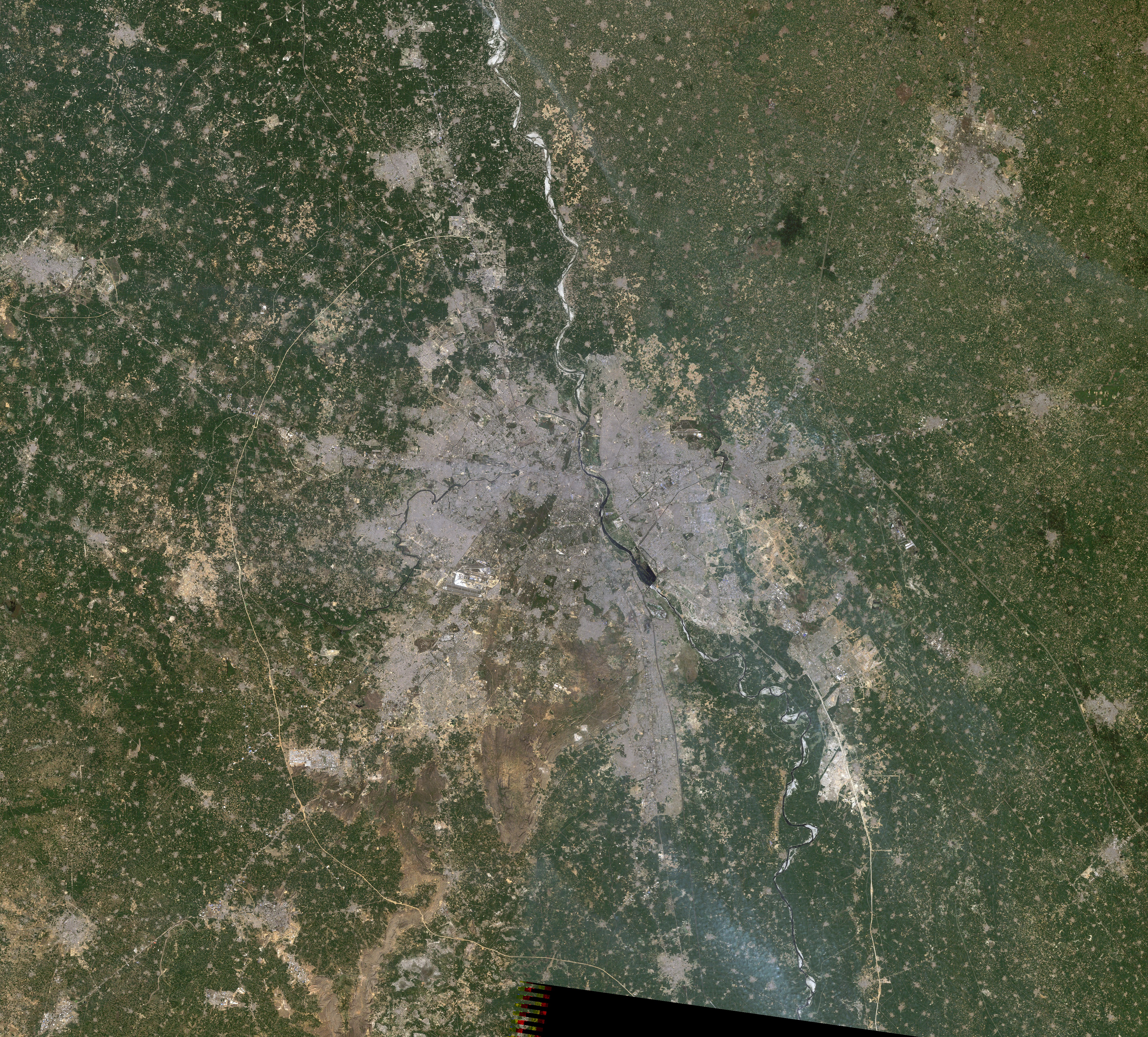 Delhi metropolitan region, satellite image, Landsat-5, 2011-03-12, near natural colors, resolution 30 m image ID LT51460402011064KHC00 & LT51470402011071KHC00